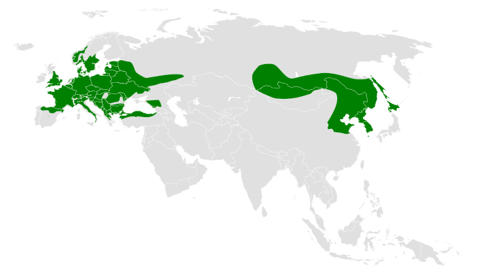 Poecile palustris distribution map, based on